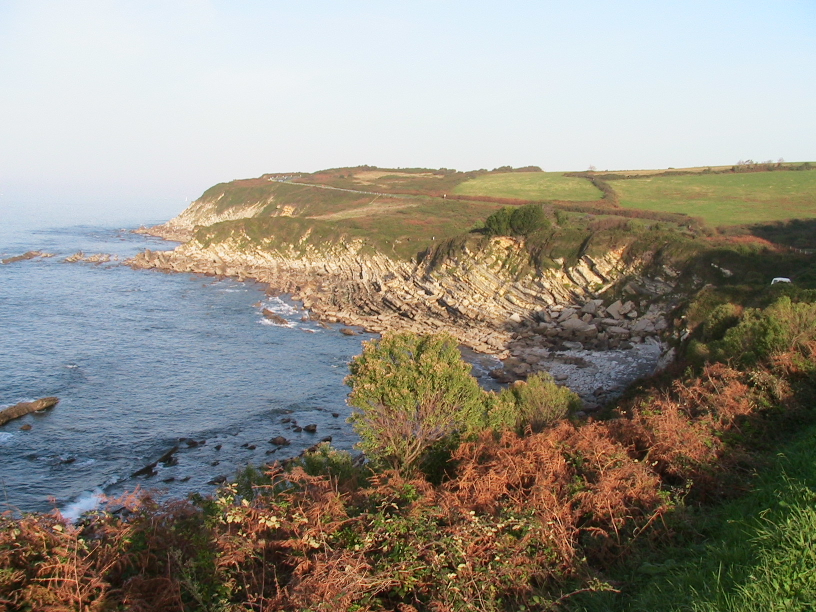 Erlaitza, Basque coast in Urrugne.